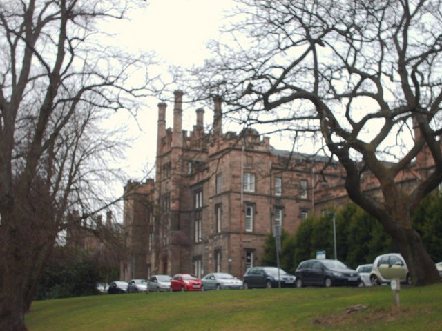 Old Gartnavel Royal. Gartnavel Royal was built in the 1840's. It was initially known as The Glasgow Royal lunatic Asylum. In 1931 the name changed to Glasgow Royal Mental Hospital, until 1963 when it was renamed Gartnavel Royal Hospital. It Closed as a working hospital a few years ago. Parts of the building are still used by the NHS.